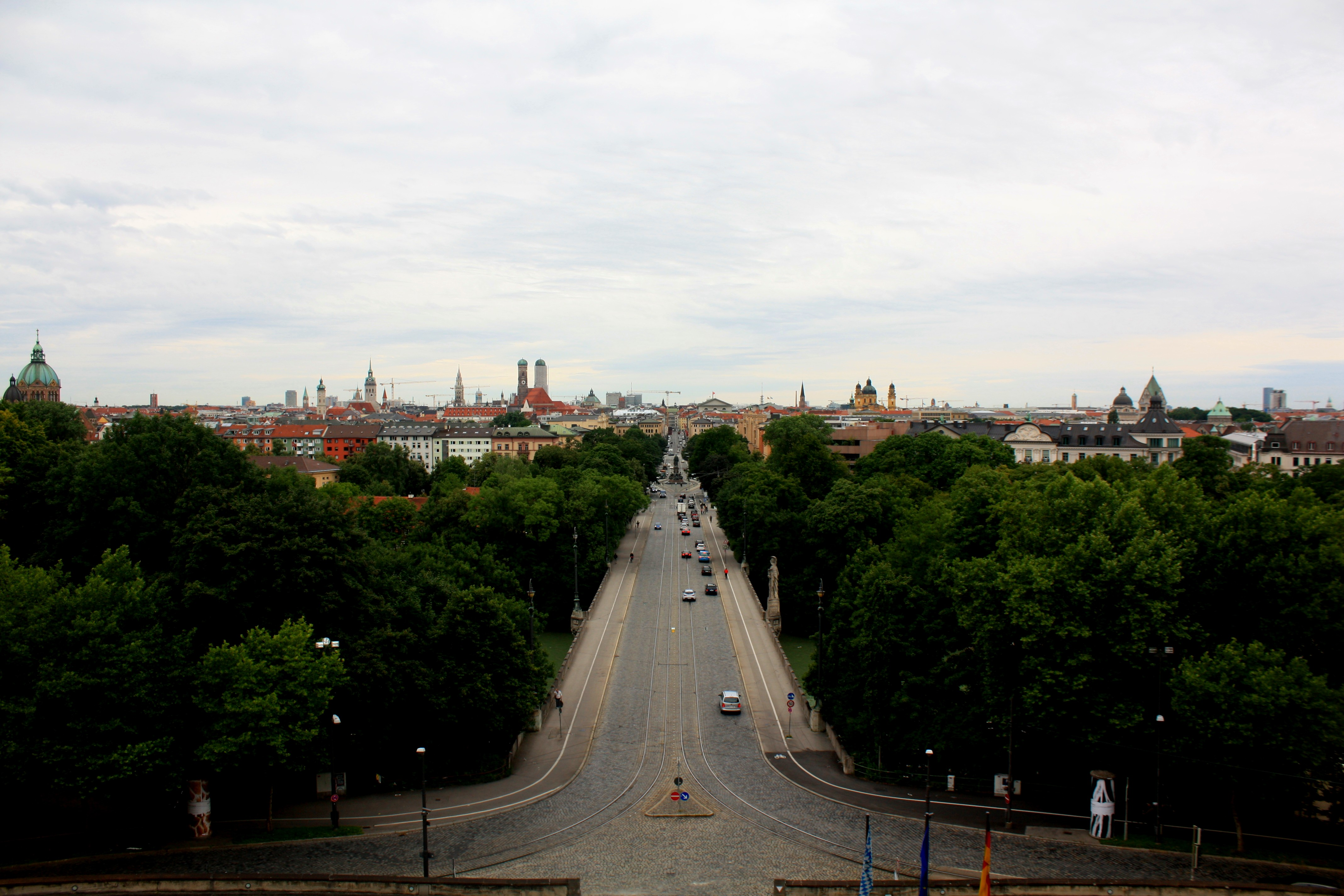 View of Munich from Bavarian parliament